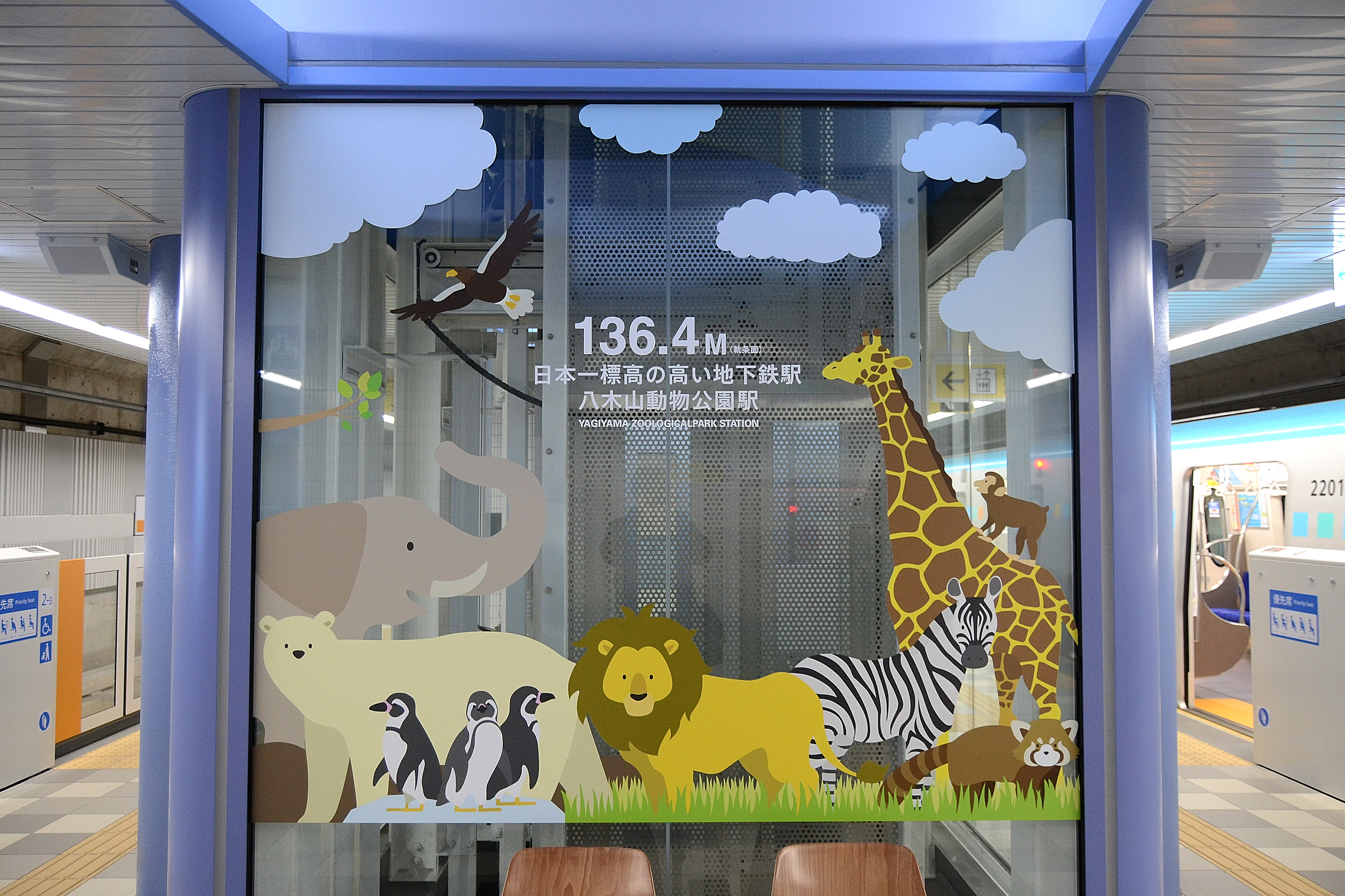 A sign on the platform at Yagiyama Zoological Park Station on the Sendai Subway Tozai Line indicating the elevation of 136.4 m, the highest subway station in Japan